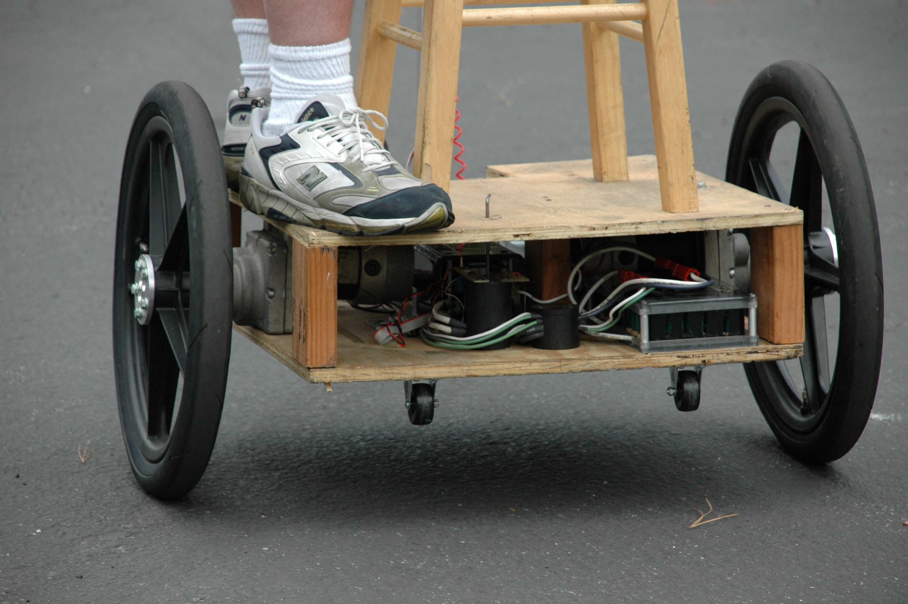 Maker Faire 2008, San Mateo